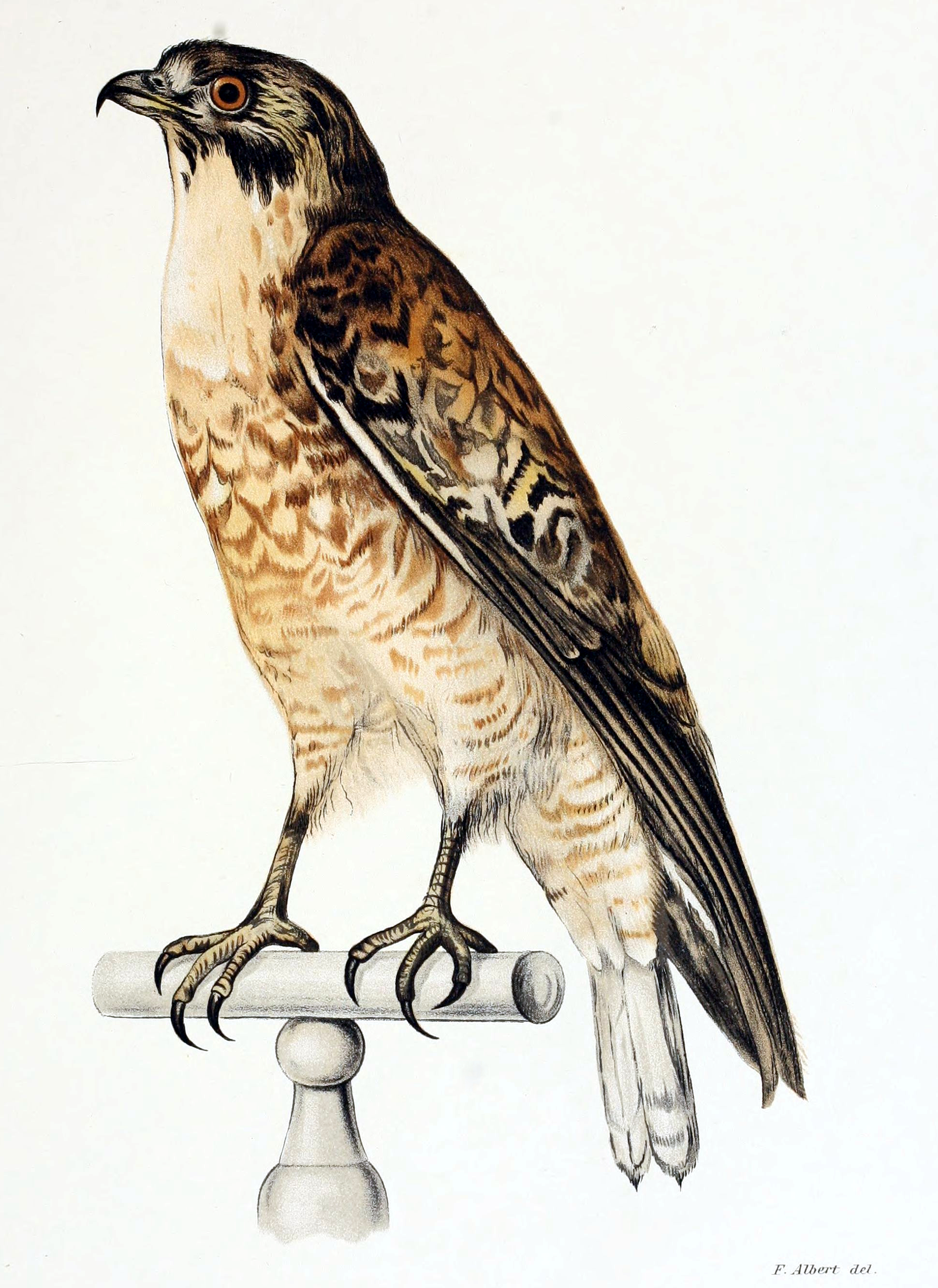 Geranoaetus polyosoma poecilochrous